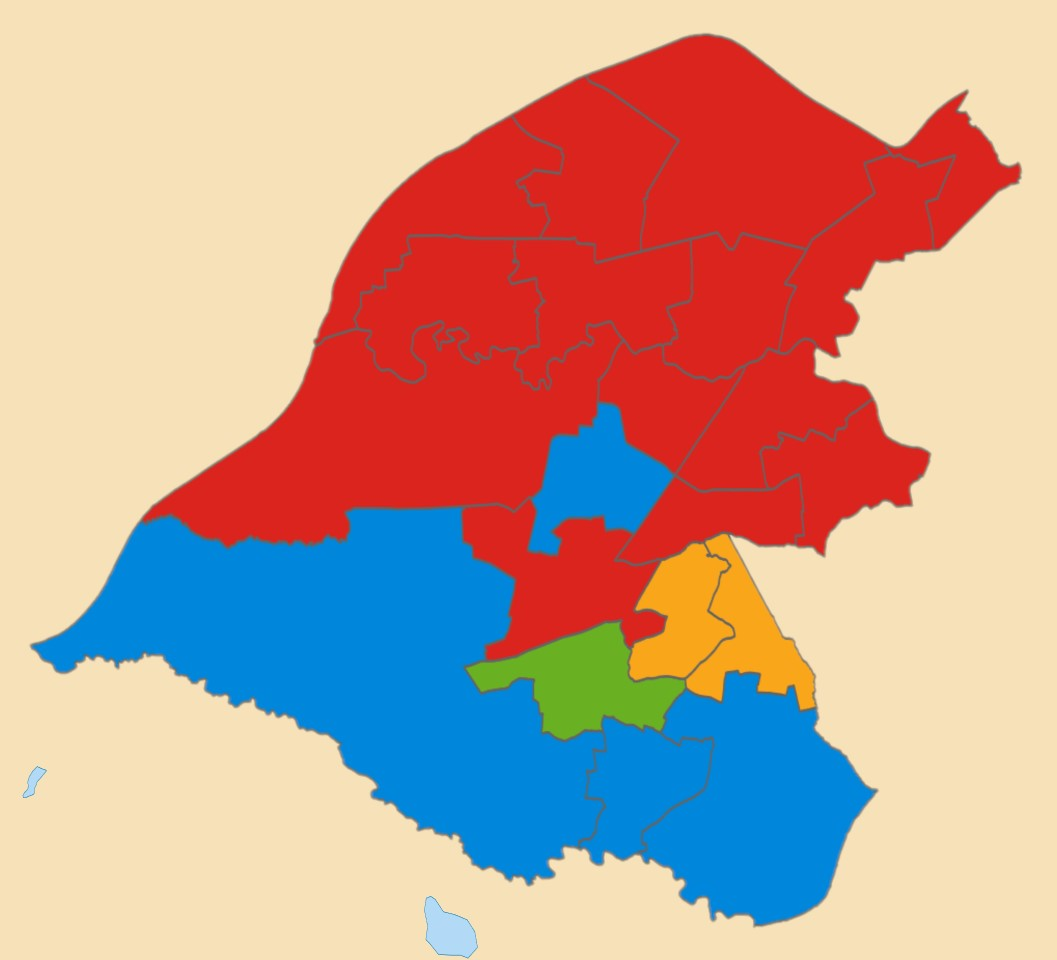 Results of the 2019 local elections in Trafford Colours: Labour Conservative Liberal Democrat Green